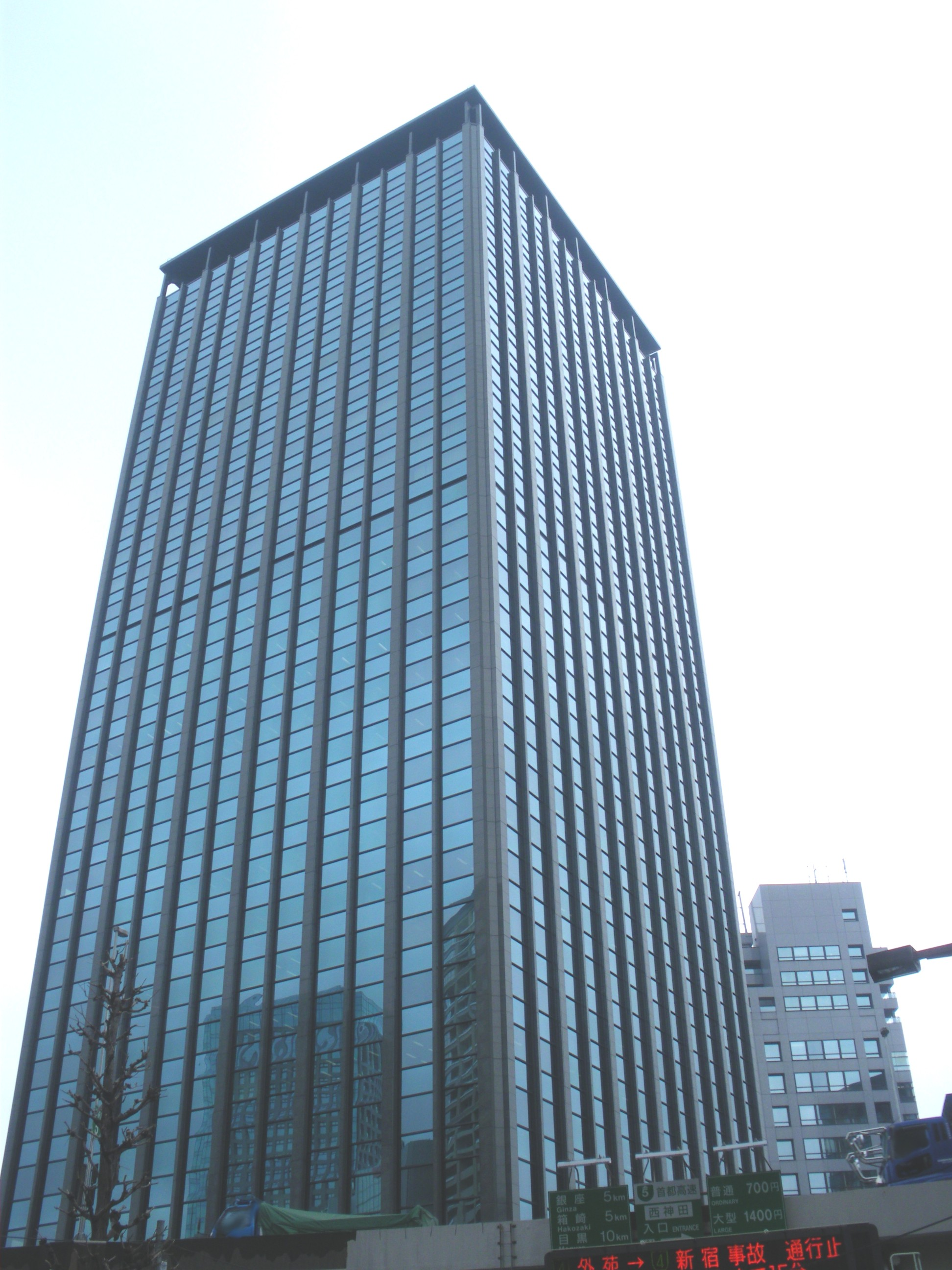 Chiyoda First Building West wing(Nishikanda,Chiyoda,Tokyo)